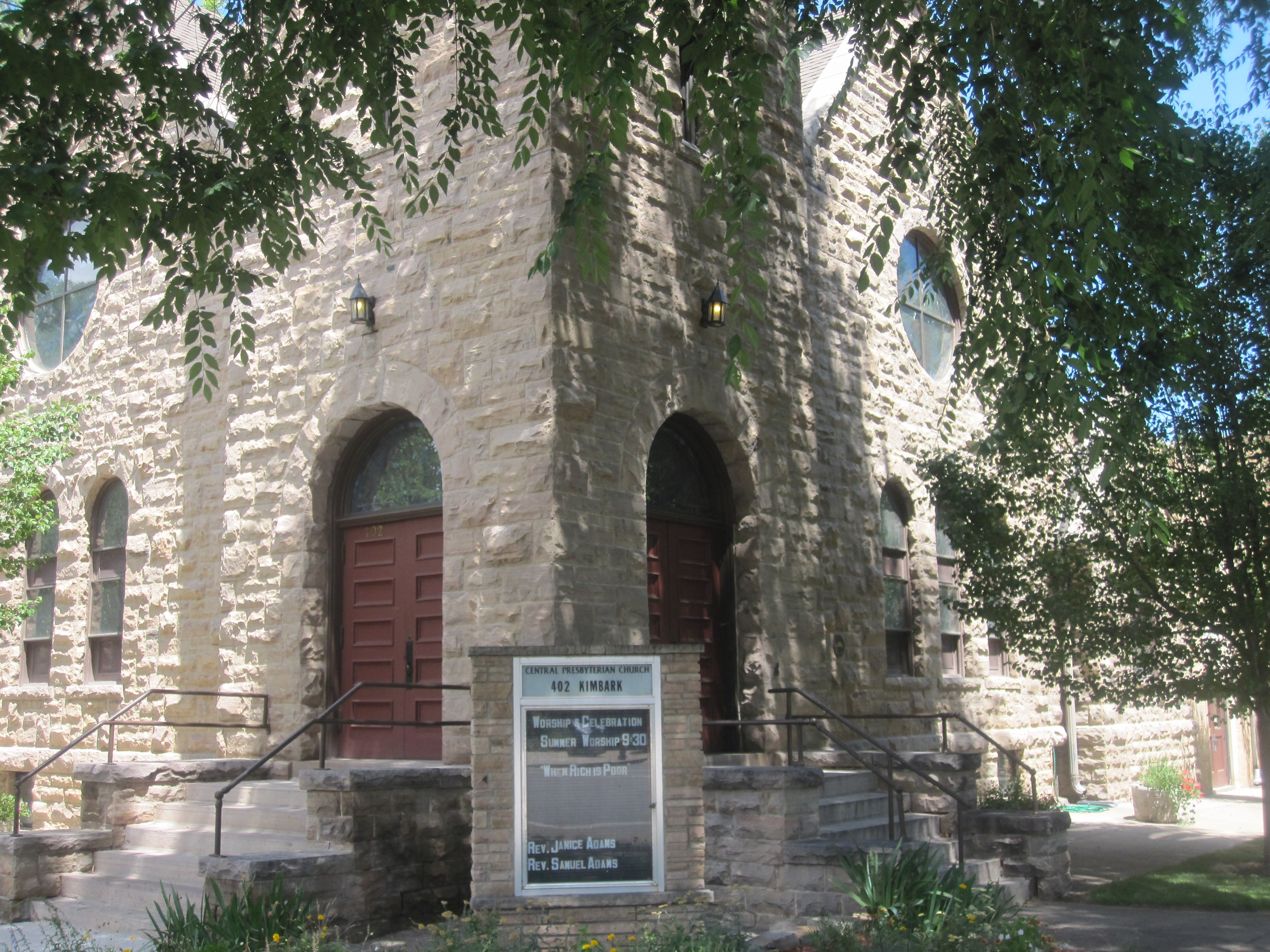 I took photo with Canon camera in Longmont, CO.